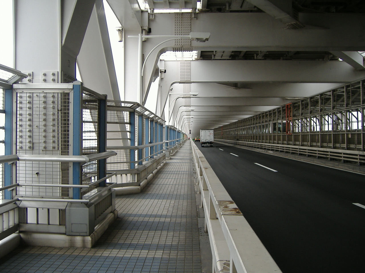 Rainbow Promenade (Tokyo, Japan)